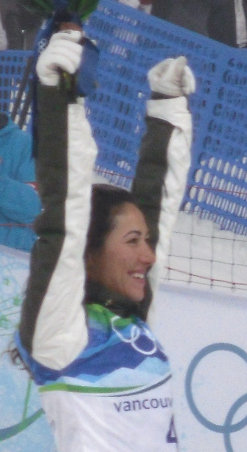 Lydia Lassila at the flower ceremony for the Women's aerialists at the 2010 Winter Olympics, having won the gold medal